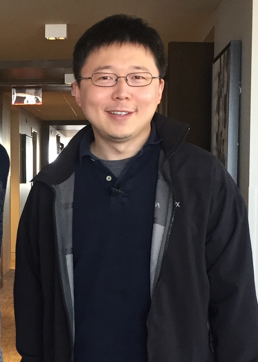 Prof. Feng Zhang at the Forbes 30 Under 30 Summit, Boston MA. 2017.